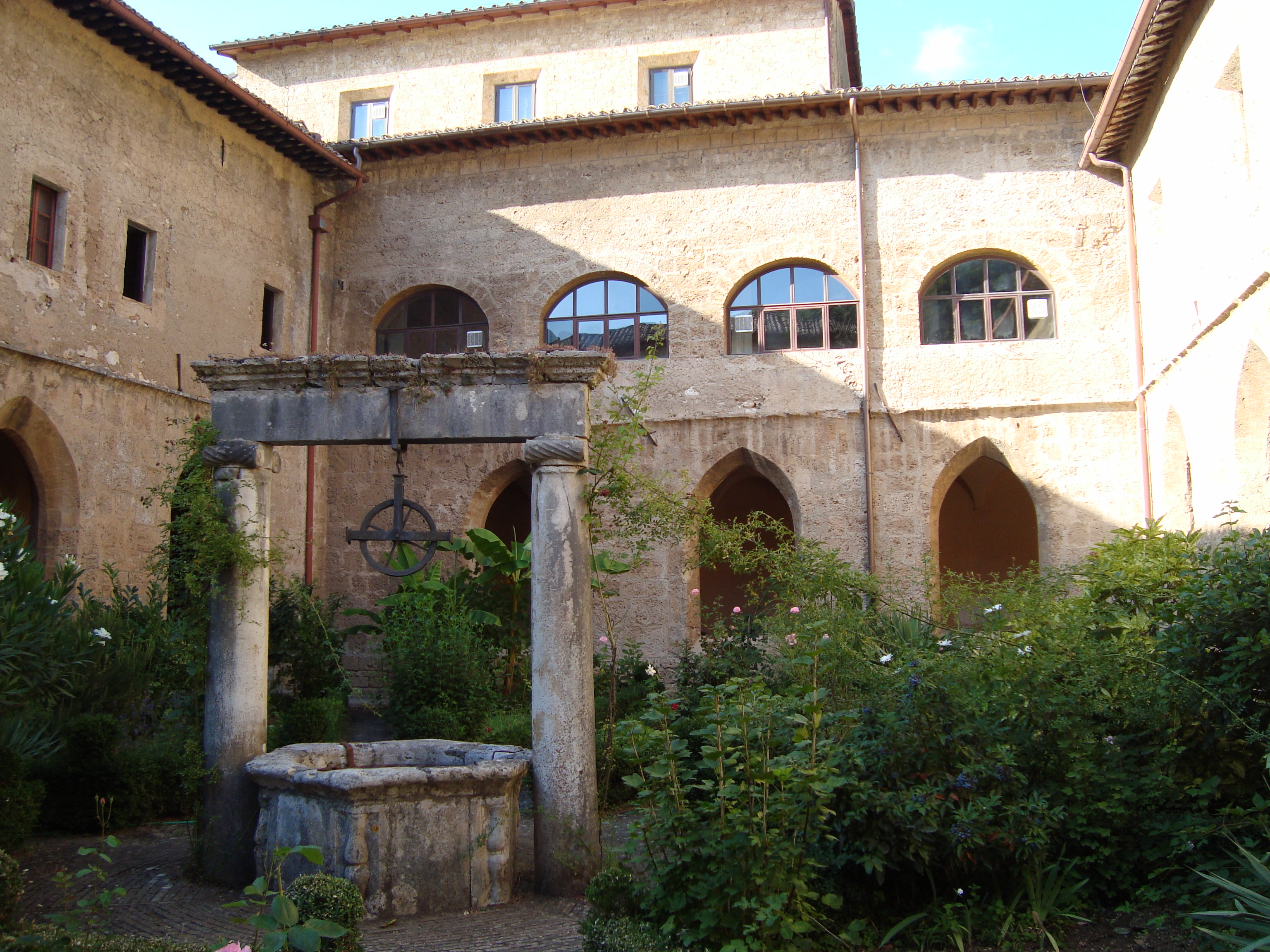 Abbey Saint-Scholastica, in Subiaco, Italy